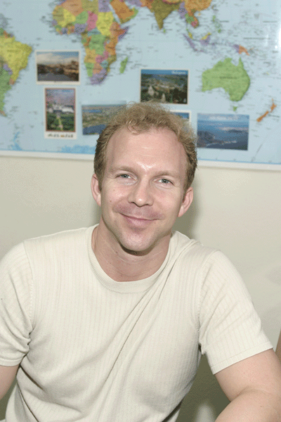 Photo.